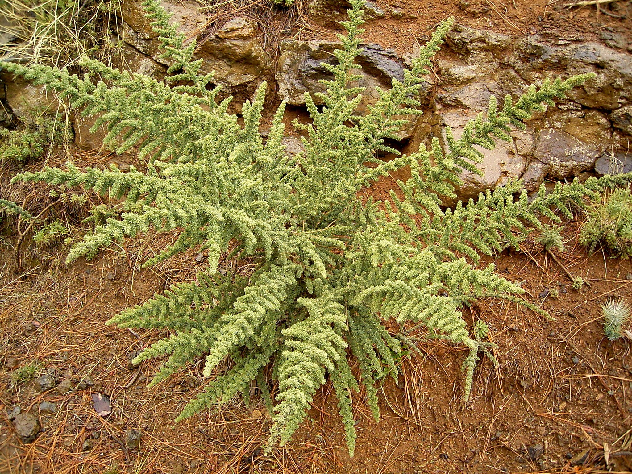 Adenocarpus viscosus growing in Barlovento, La Palma, Canary Islands